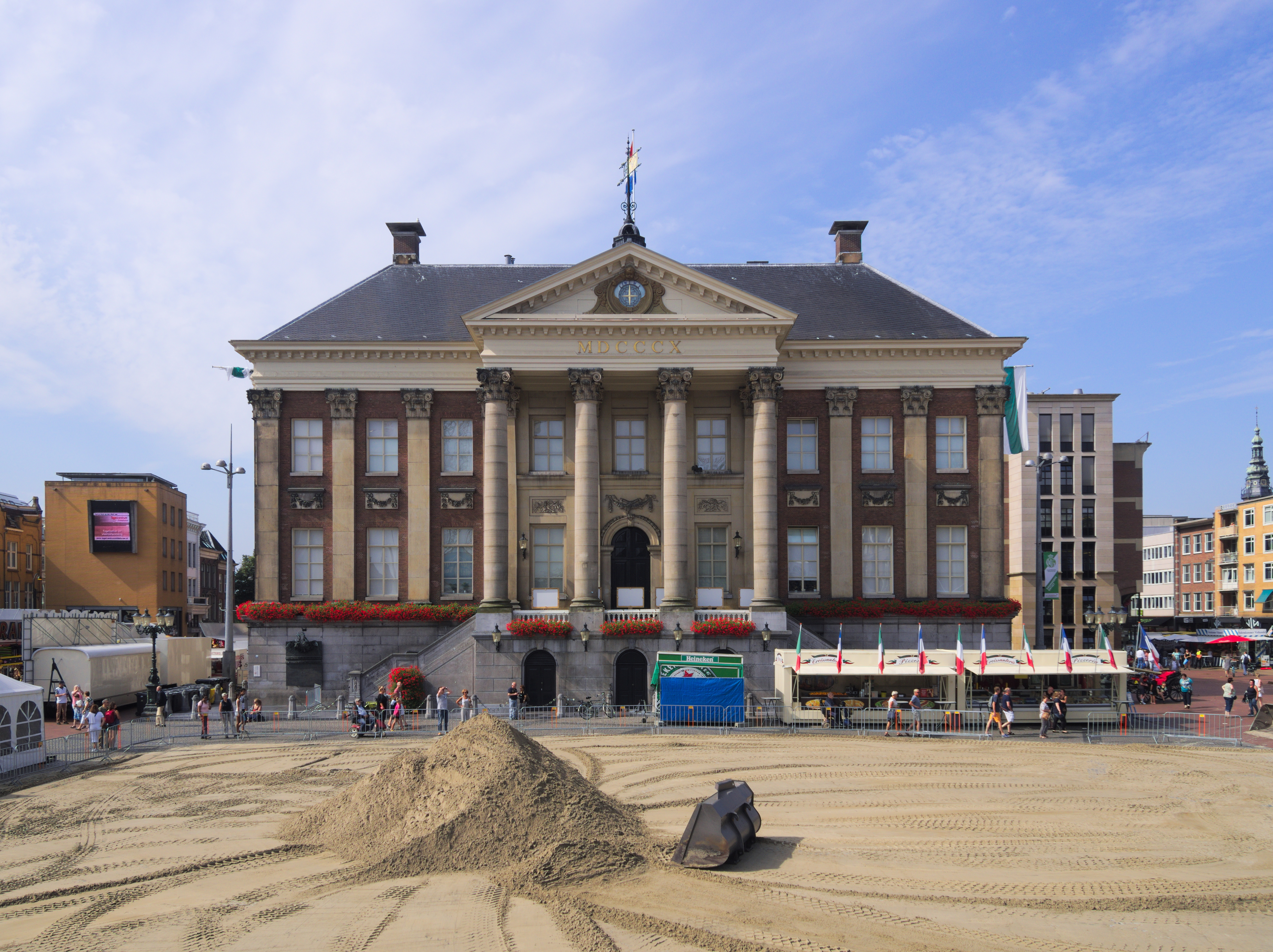 The city hall of Groningen (Stadhuis van Groningen), with a pill of sand at the grote markt square.